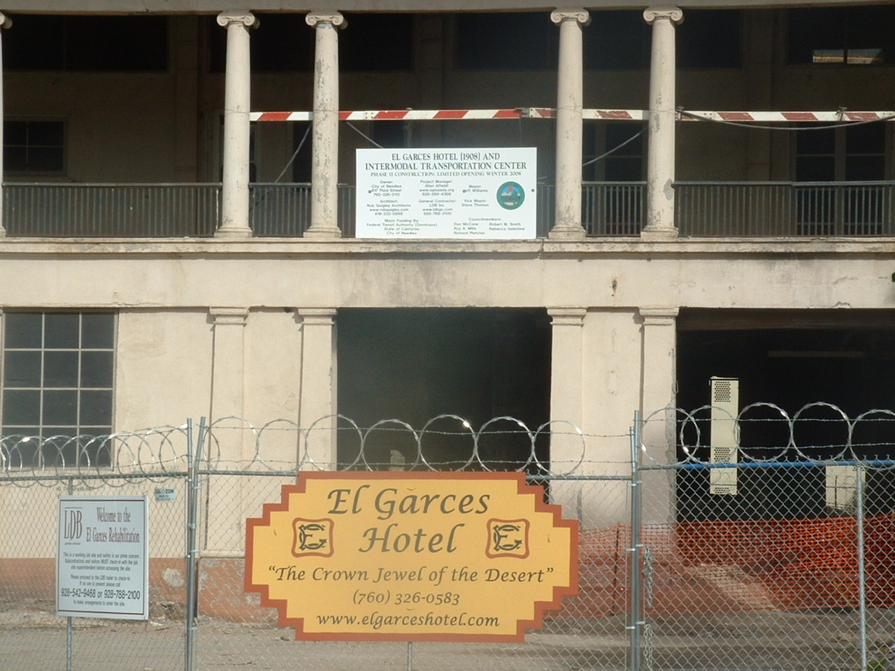 The El Garces Hotel, a historical monument, is presently under reconstruction, in Needles, San Bernerdino, California.